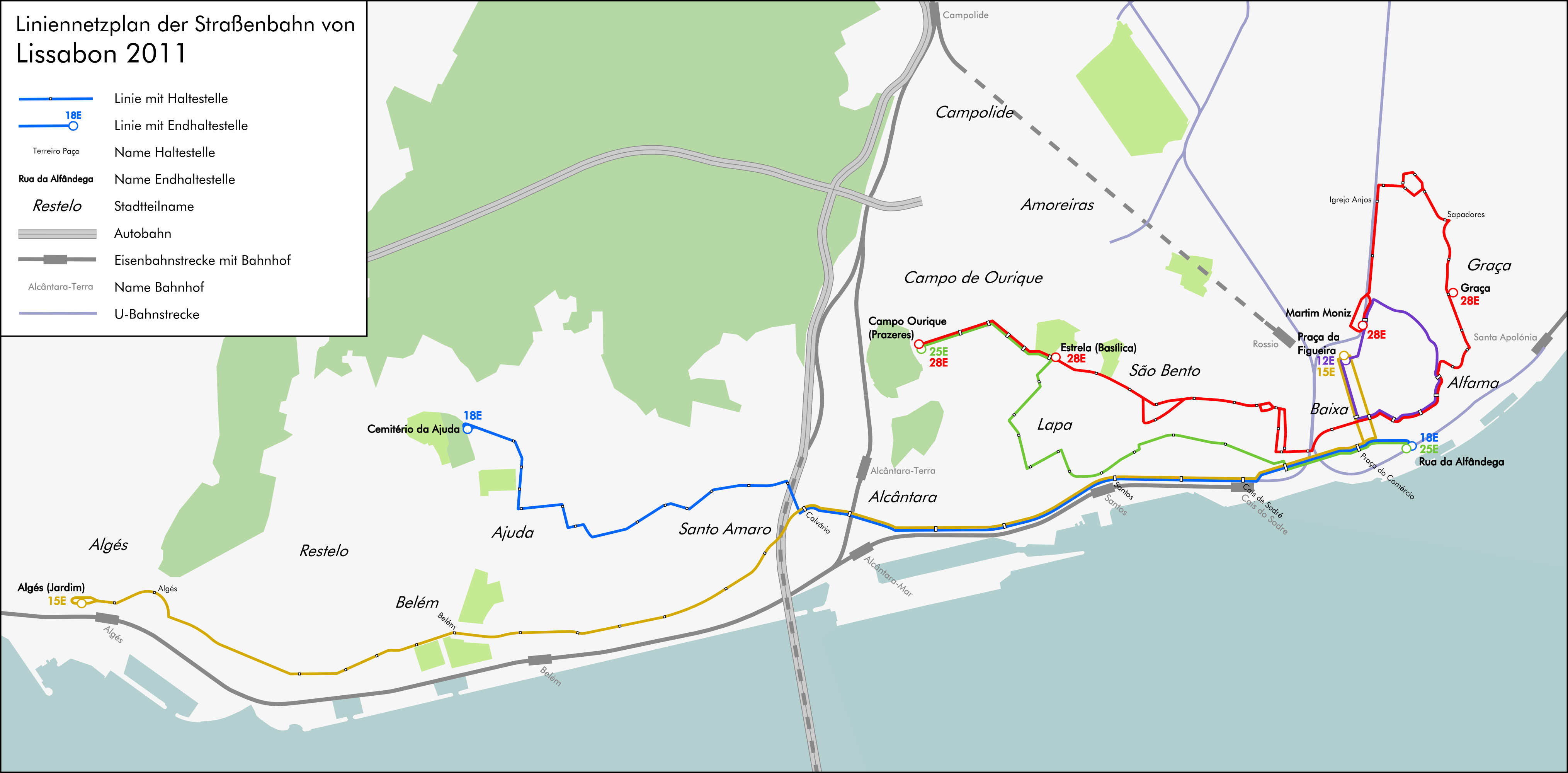 Map of Tram lines in Lisbon 2011.